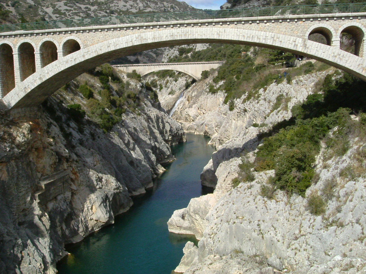 The road bridge (foreground) and aqueduct (background) over the Hérault river near the village of Saint-Guilhem-le-Désert, seen from Pont du Diable, Hérault, France.